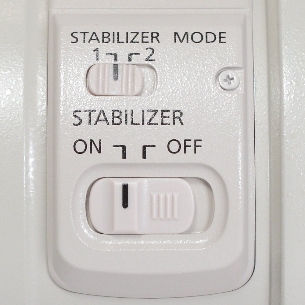 Image stabilizer switch, and Image stabilizer mode switch, of a Canon EF lens.Lens that was used as subject, is the Canon EF 300mm f/4L IS USM.